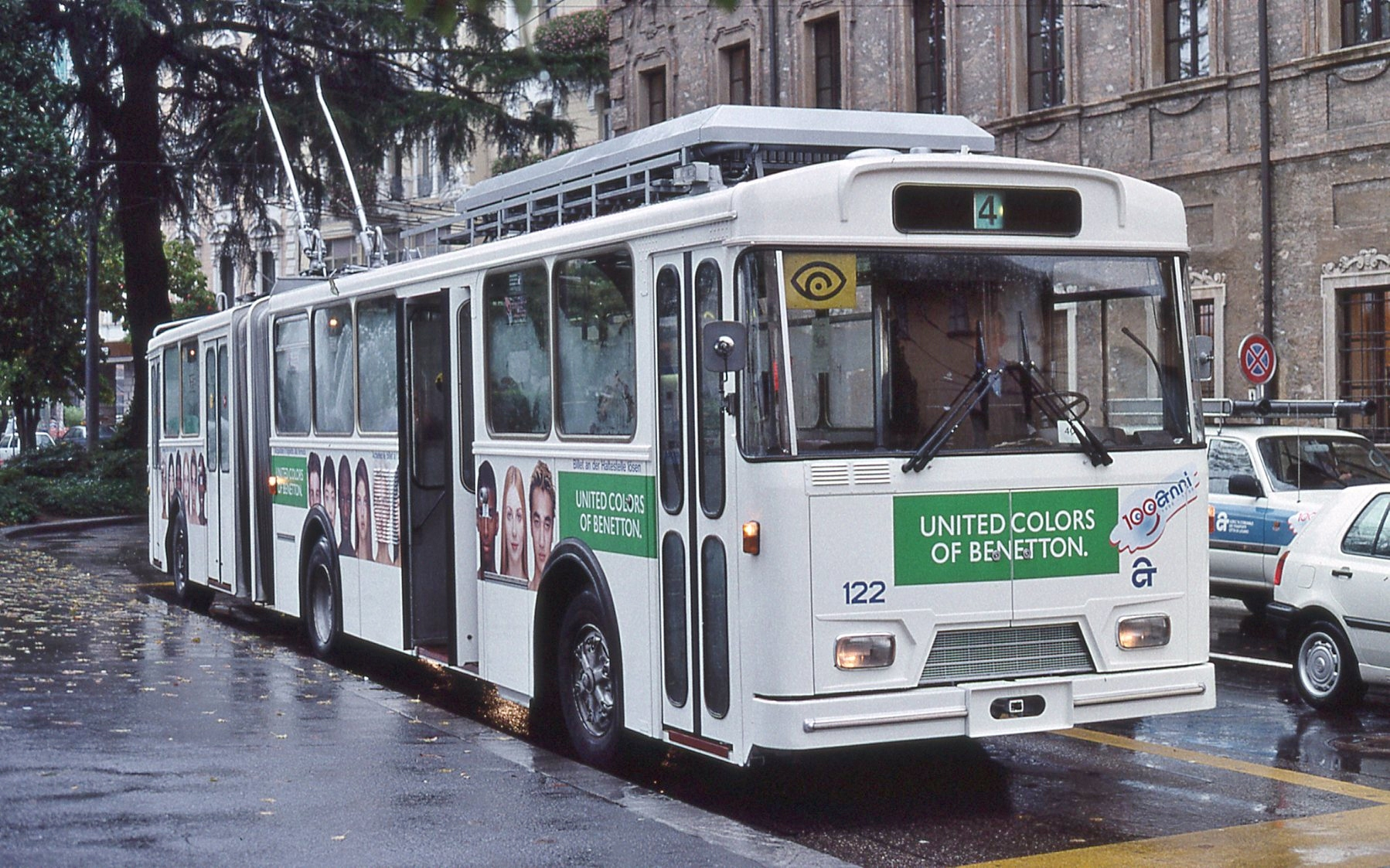 Lugano trolleybus 122, a Hess-bodied Volvo built in 1975, at Piazza Manzoni.